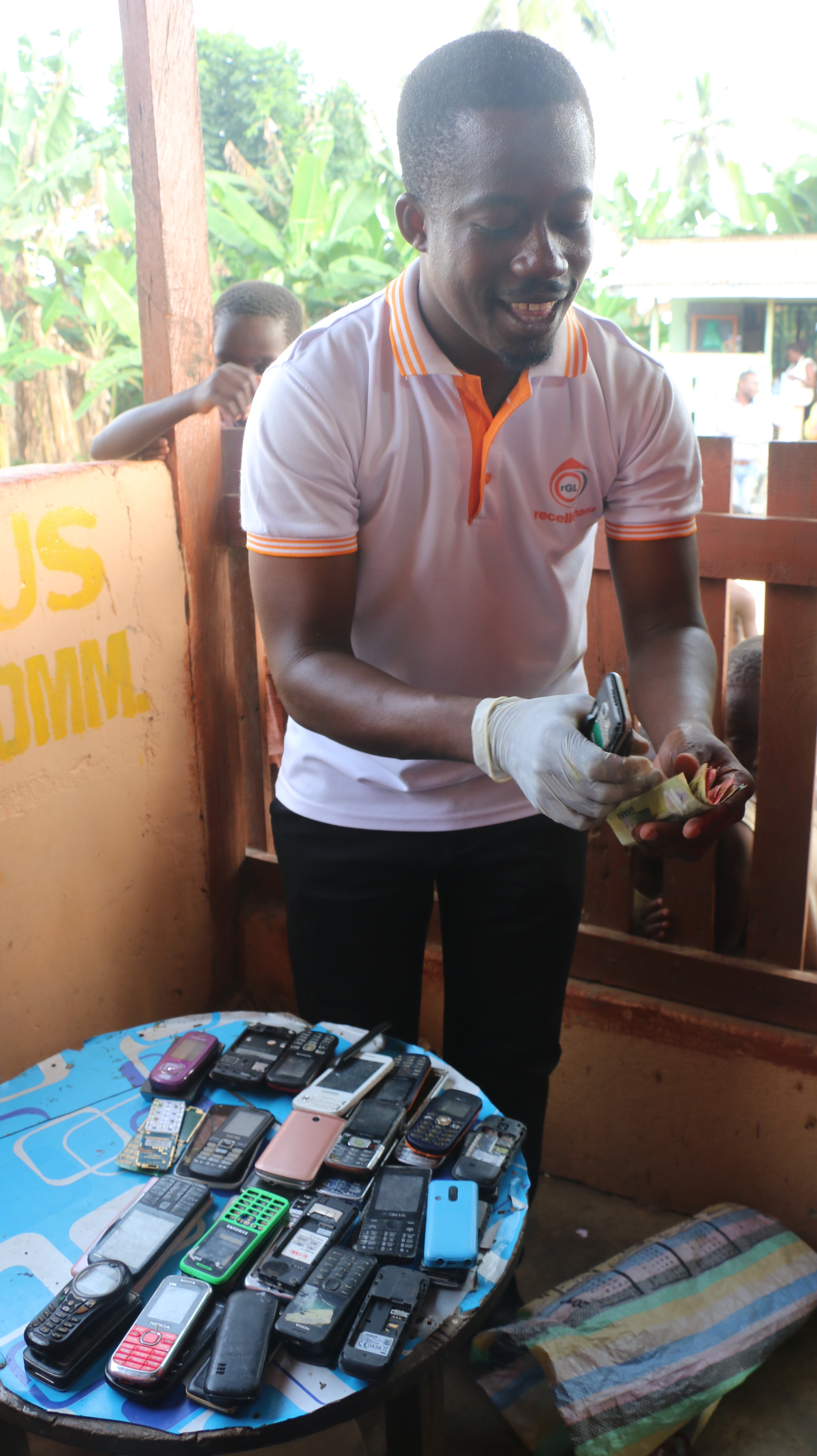 Day 7 - 8: Promoting Recycling in Villages